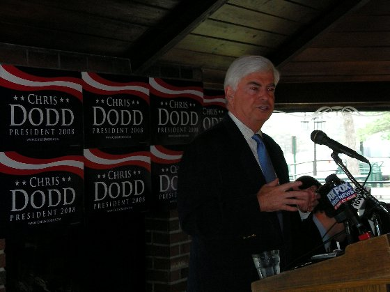 Sen. Chris Dodd, D-Conn., speaks May 3 in West Des Moines.